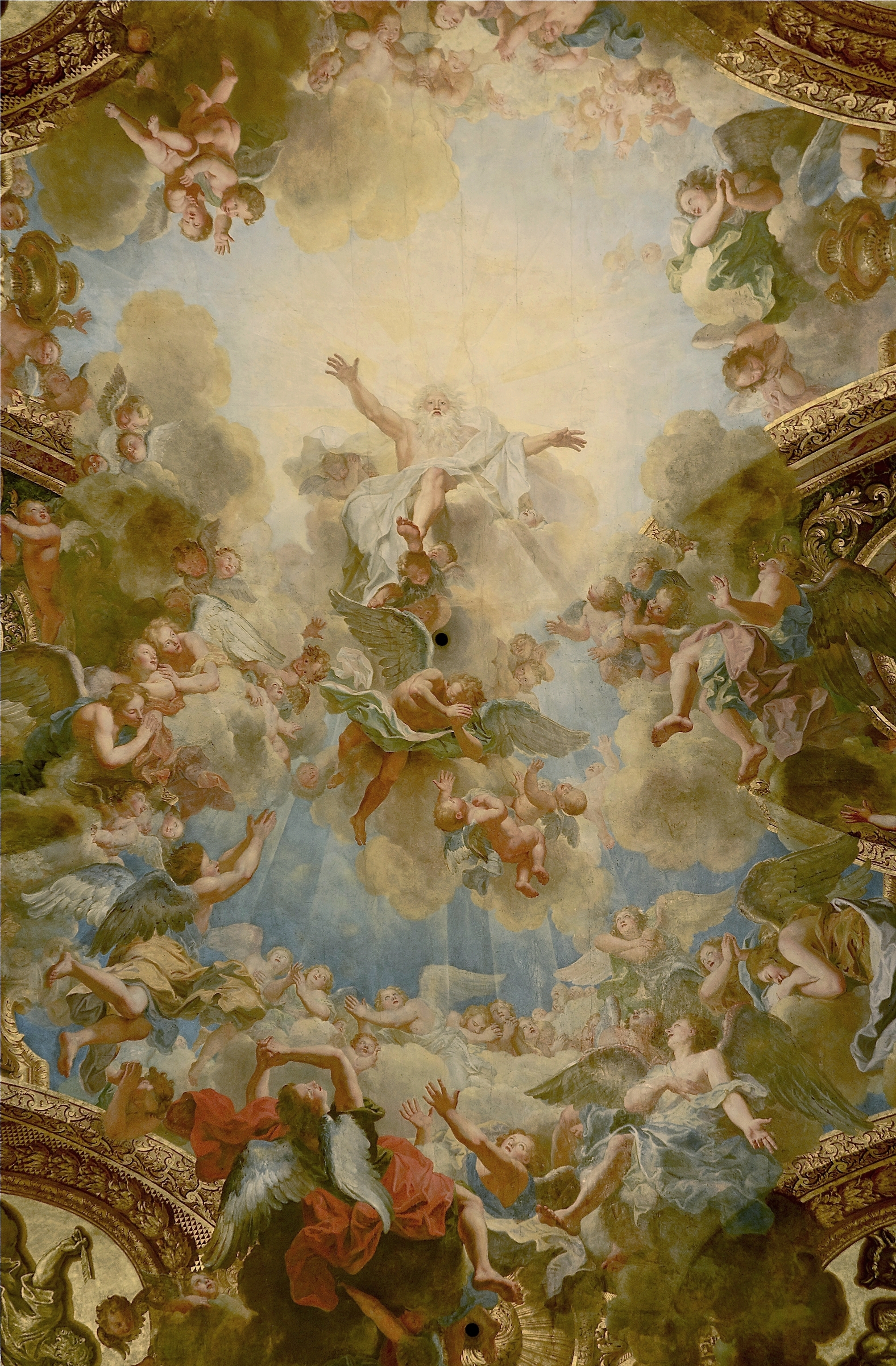 "Almighty God the Father", by Antoine Coypel, detail of the ceiling of the chapel of the Palace of Versailles, Yvelines, France.